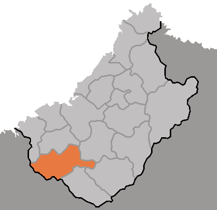 Map of Songwon, Chagang-do, DPRK, 2006